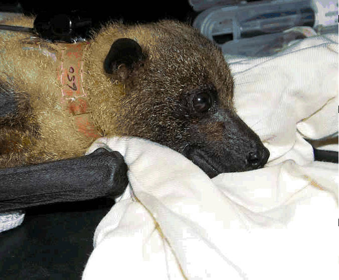 A picture of the Mariana Fruit Bat (Pteropus mariannus mariannus ).